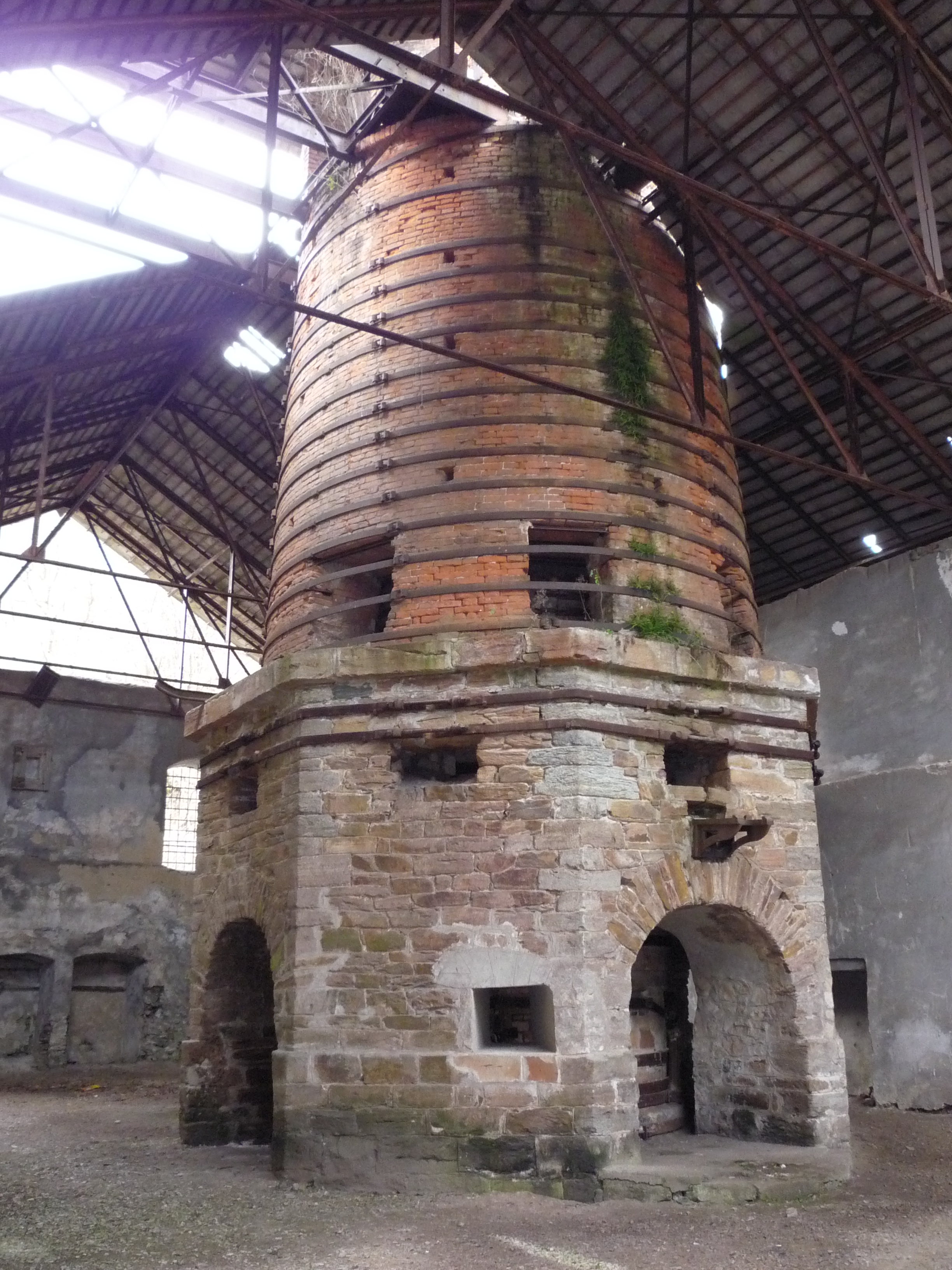 This is the actual blast furnace at Govăjdia, Hunedoara County in Romania. The blast furnace was built on the site of an old foundry called "Old Limpetru". The blast furnace was built from 1806 till 1810 because the other blast furnace situated at Topliţa couldn't satisfy the need of iron. The blast furnace was shut down in 1924 after the start of the ironworks at Hunedoara in 1884.